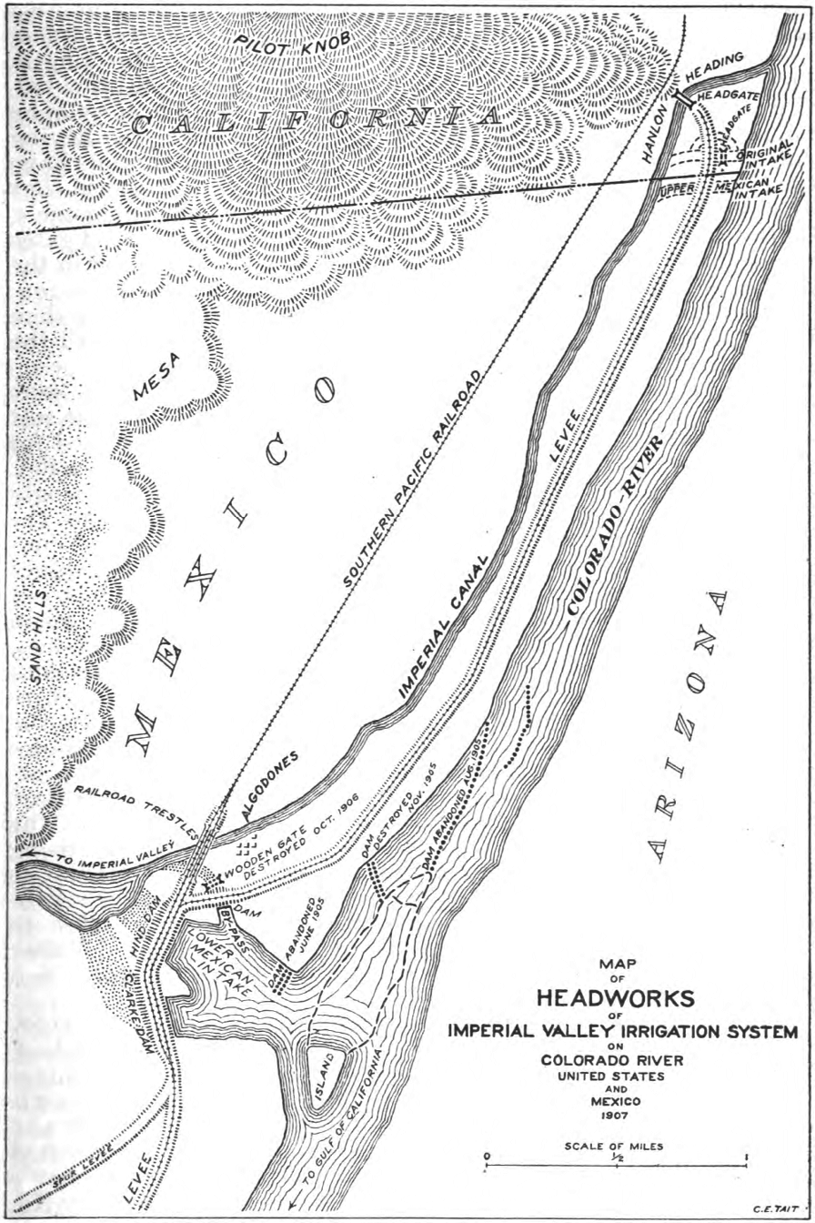 Map of headworks of the Imperial Valley irrigation system, dated 1907.